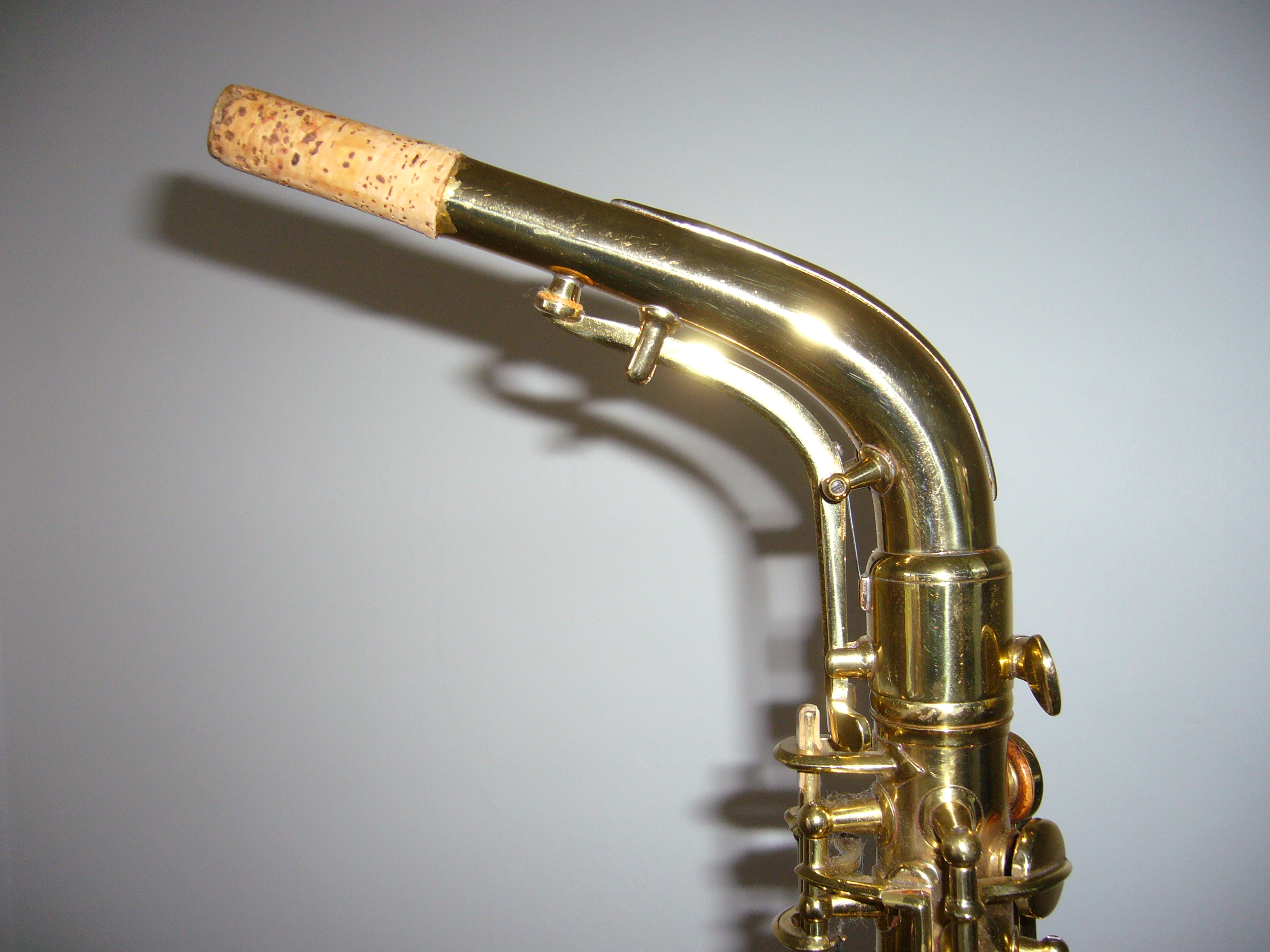 Close-up view of the unusual and distinctive "underslung" octave key mechanism on a Conn 6M "Lady Face" alto saxophone dated 1935. Note:- most saxophone octave key tone holes are situated above the crook.